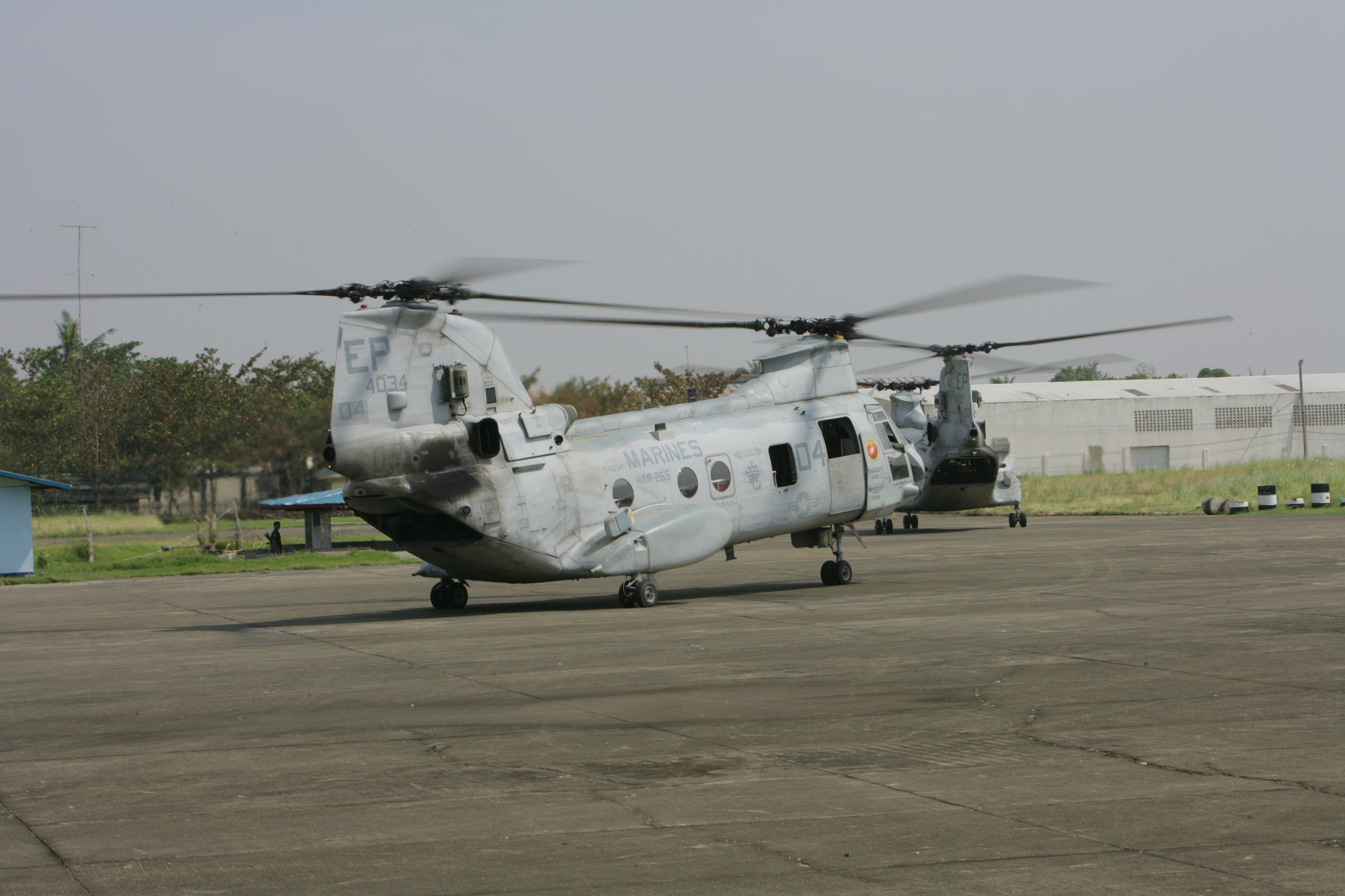 Two U.S. Marine Corps CH-46E Sea Knight helicopters land at the airport in Cauayan City, Philippines, to pick up relief supplies Oct. 22, 2010. The Marines flew the supplies to towns and villages damaged by Super Typhoon Megi.